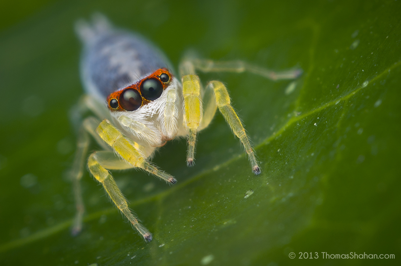 A Cotinusa jumping spider from Belize